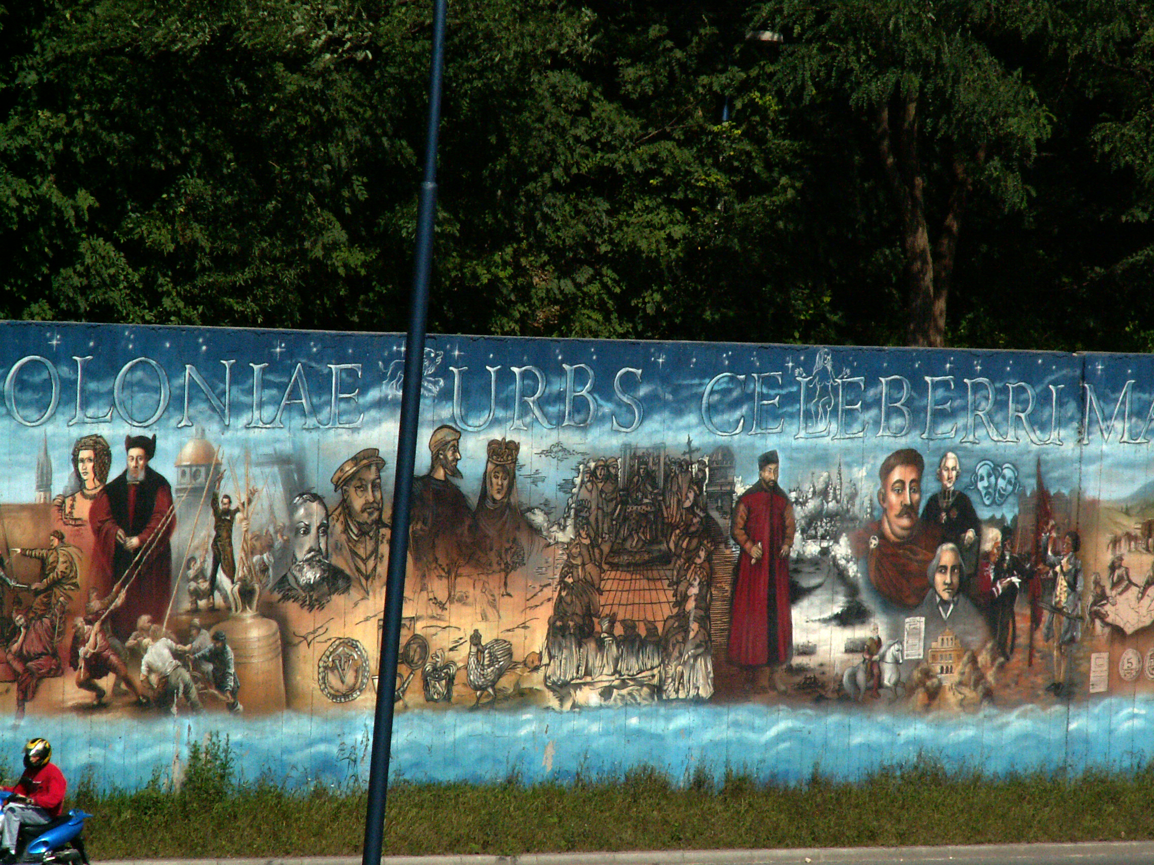 Mural Silva Rerum3,Powstańców Śląskich street,Podgórze,Kraków,Poland